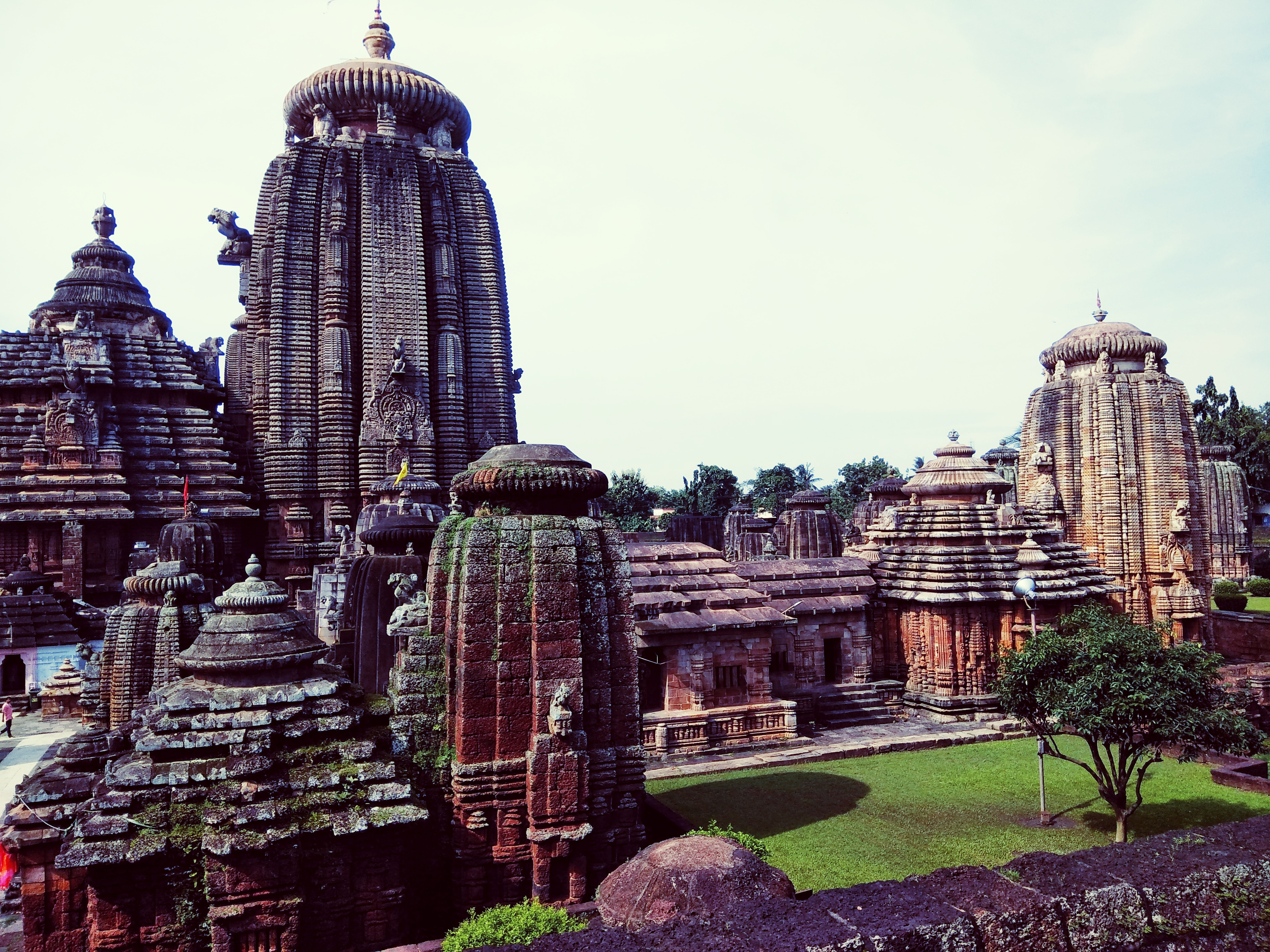 This photo of Lingaraj Temple is taken from the structure made for Lord Curzon near the north gate of the temple complex.